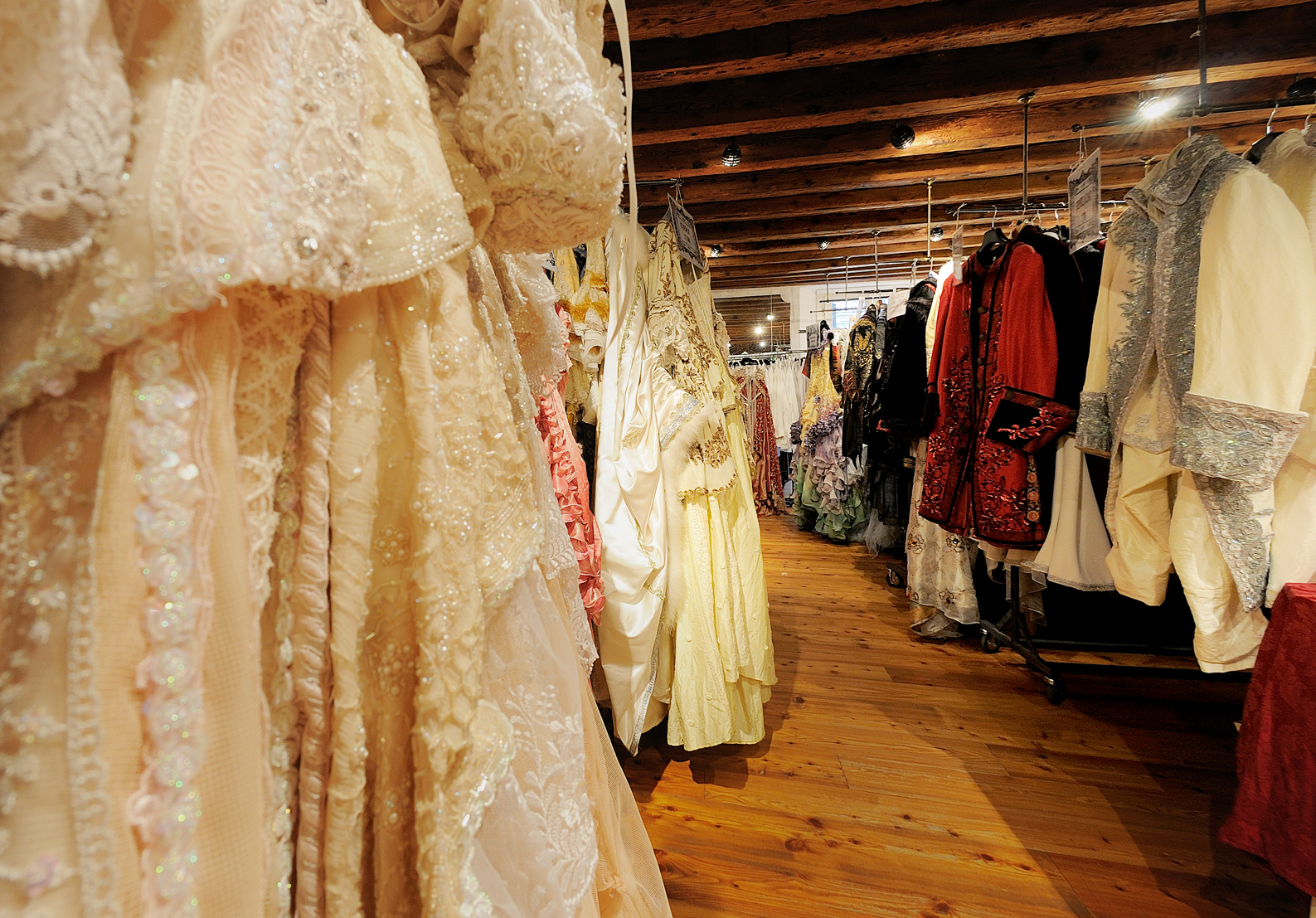 Altelier of costumes by Antonia Sautter